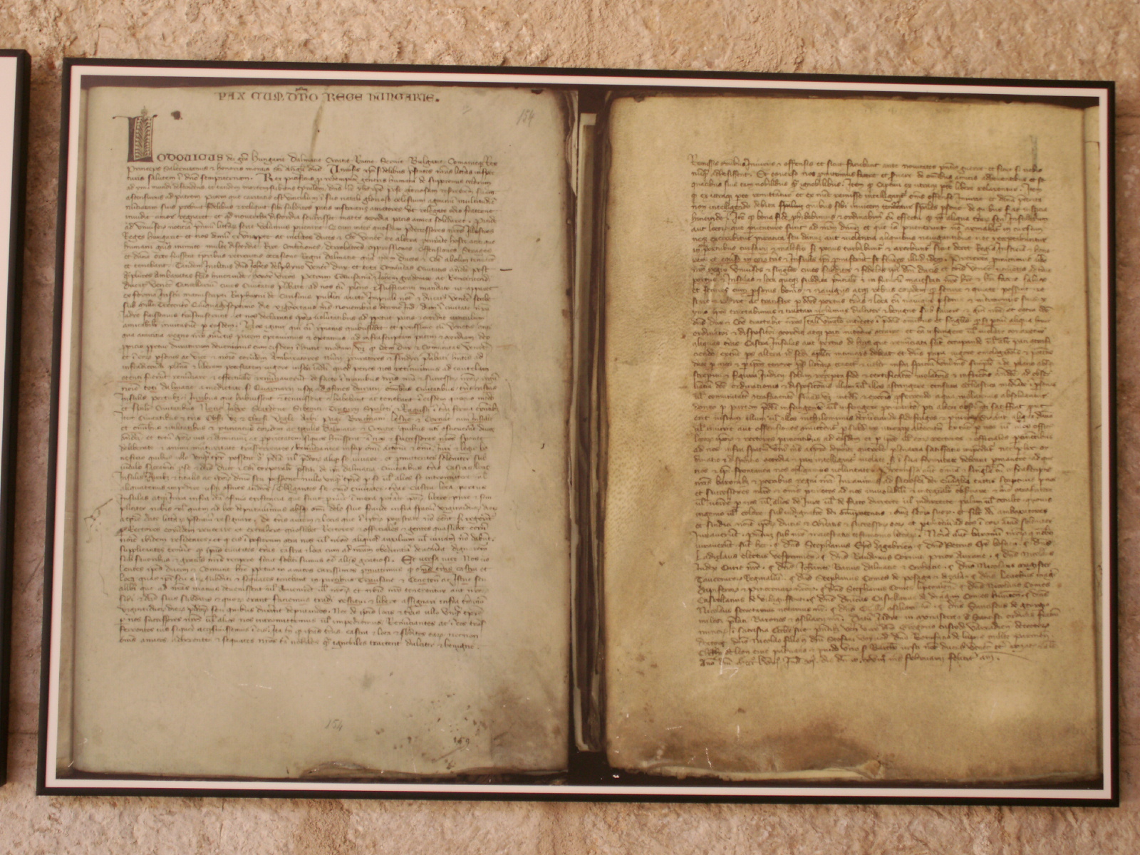 Text of Peace-treaty of Zadar, 1358